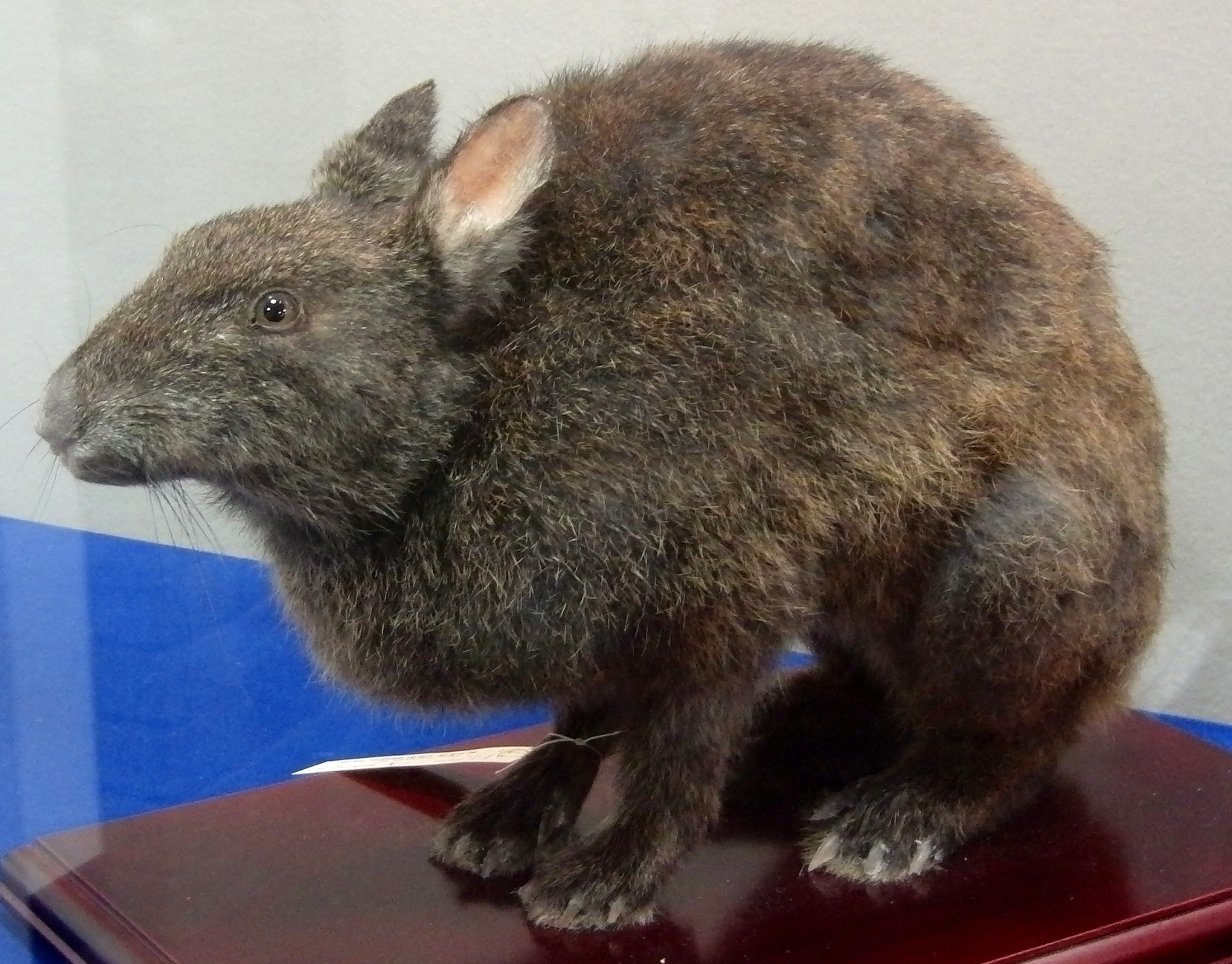 Amami Rabbit (Pentalagus furnessi), stuffed specimen. Collection of the National Museum of Nature and Science, Tokyo, Japan. Exhibited in Planned Exhibition "2011,The New Year of the year of the Rabbit".